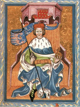 Ottokar II Premysl